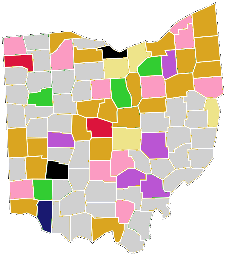 County results of the 2020 Libertarian presidential caucus